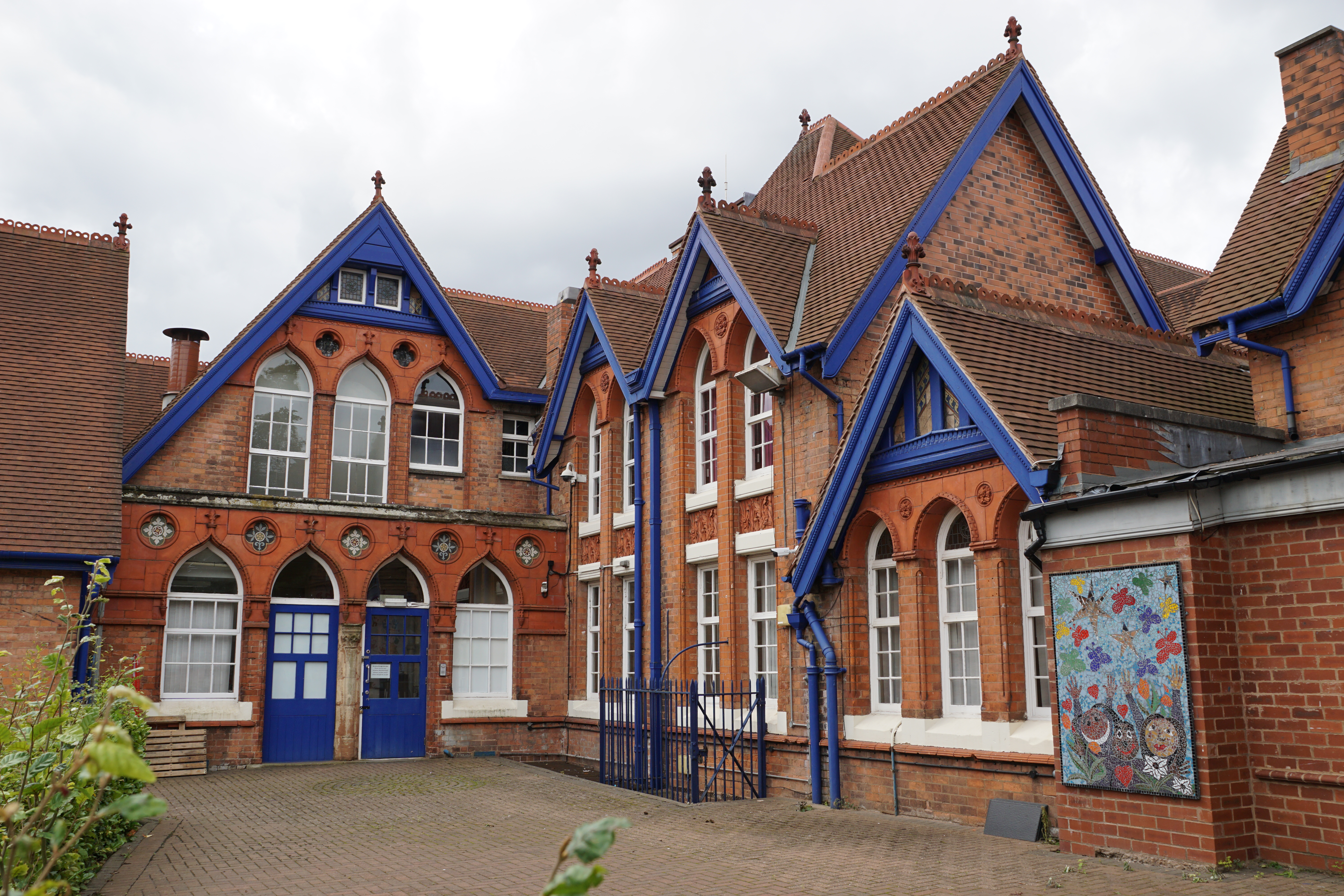 Entrance to Ladypool Primary School, Sparkbrook, Birmingham,, England). A former Birmingham board school. The school was extensively damaged in the Birmingham Tornado on 28 July 2005 and lost its distinctive Martin & Chamberlain tower.